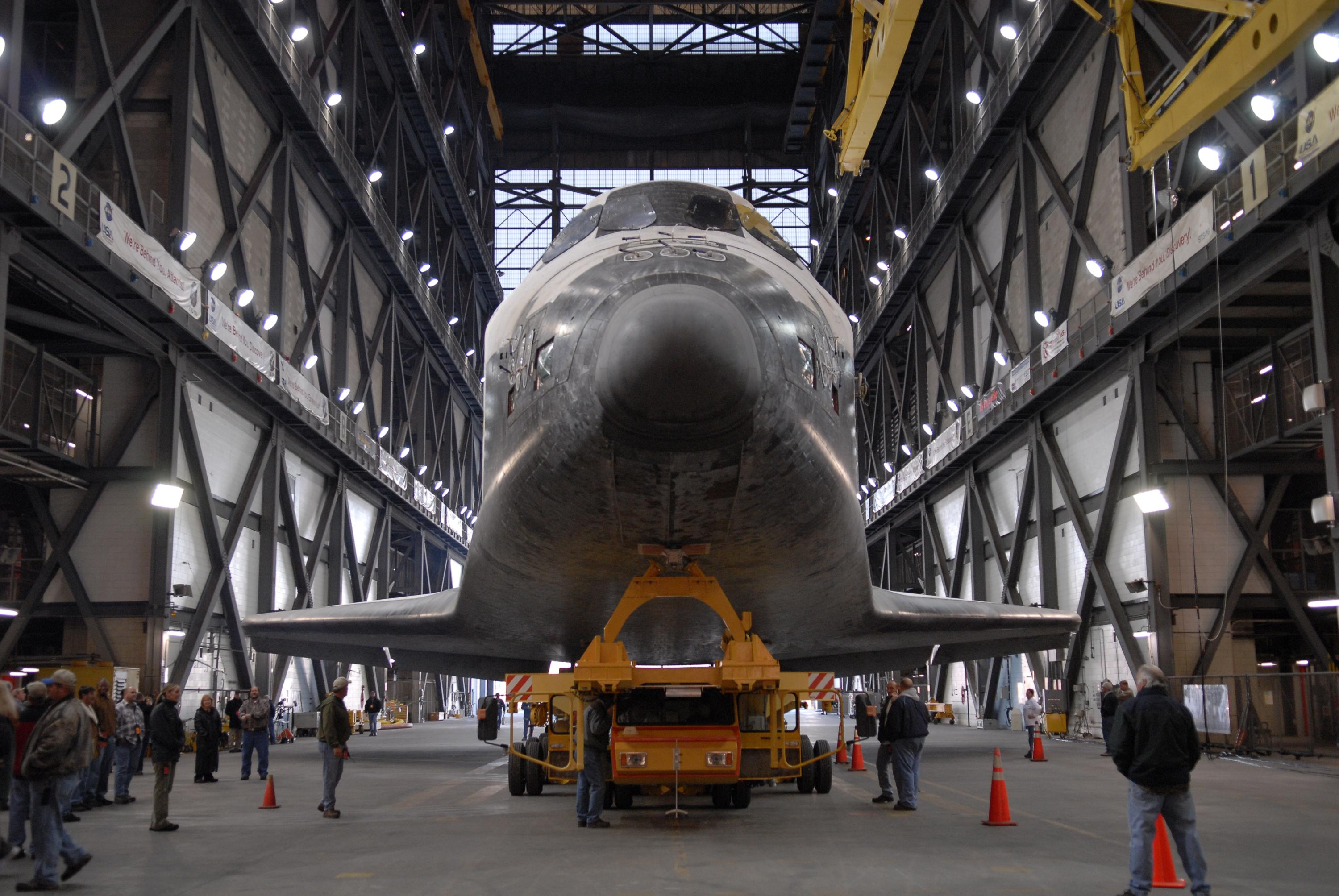 RKennedy Space Centre, Florida - Space Shuttle Atlantis, on top of its transporter, rests in the transfer aisle of the Vehicle Assembly Building after the rollover from the Orbiter Processing Facility.